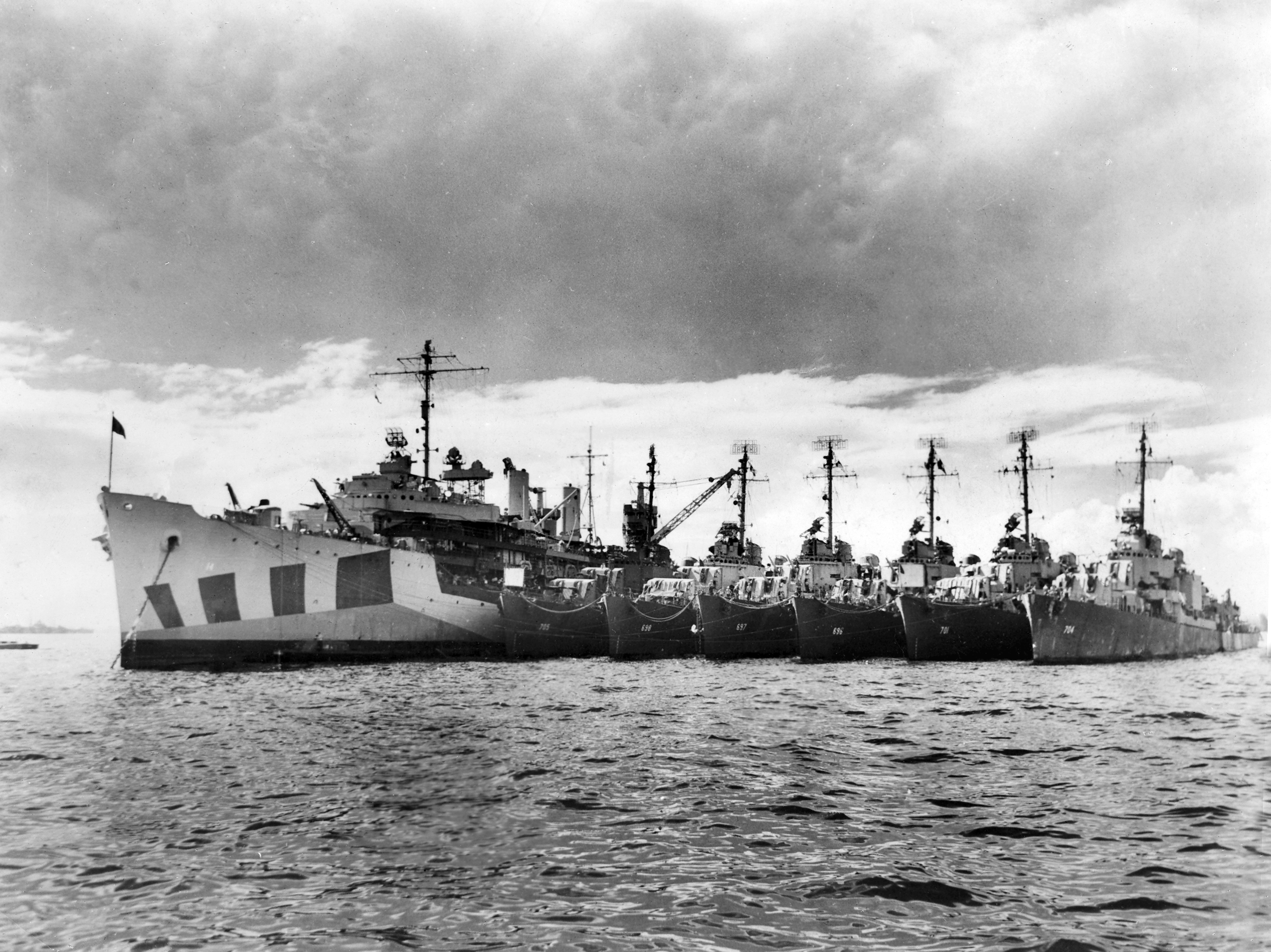 The U.S. Navy destroyer tender USS Dixie (AD-14) at San Pedro Bay, Leyte island, Philippines, in April/May 1945 at anchor with six Allen M. Sumner-class destroyers alongside. The Dixie is painted in camouflage measure 32. The destroyers are (l-r): USS Compton (DD-705), USS Ault (DD-698), USS Charles S. Sperry (DD-697), USS English (DD-696), USS John W. Weeks (DD-701), and USS Borie (DD-704).